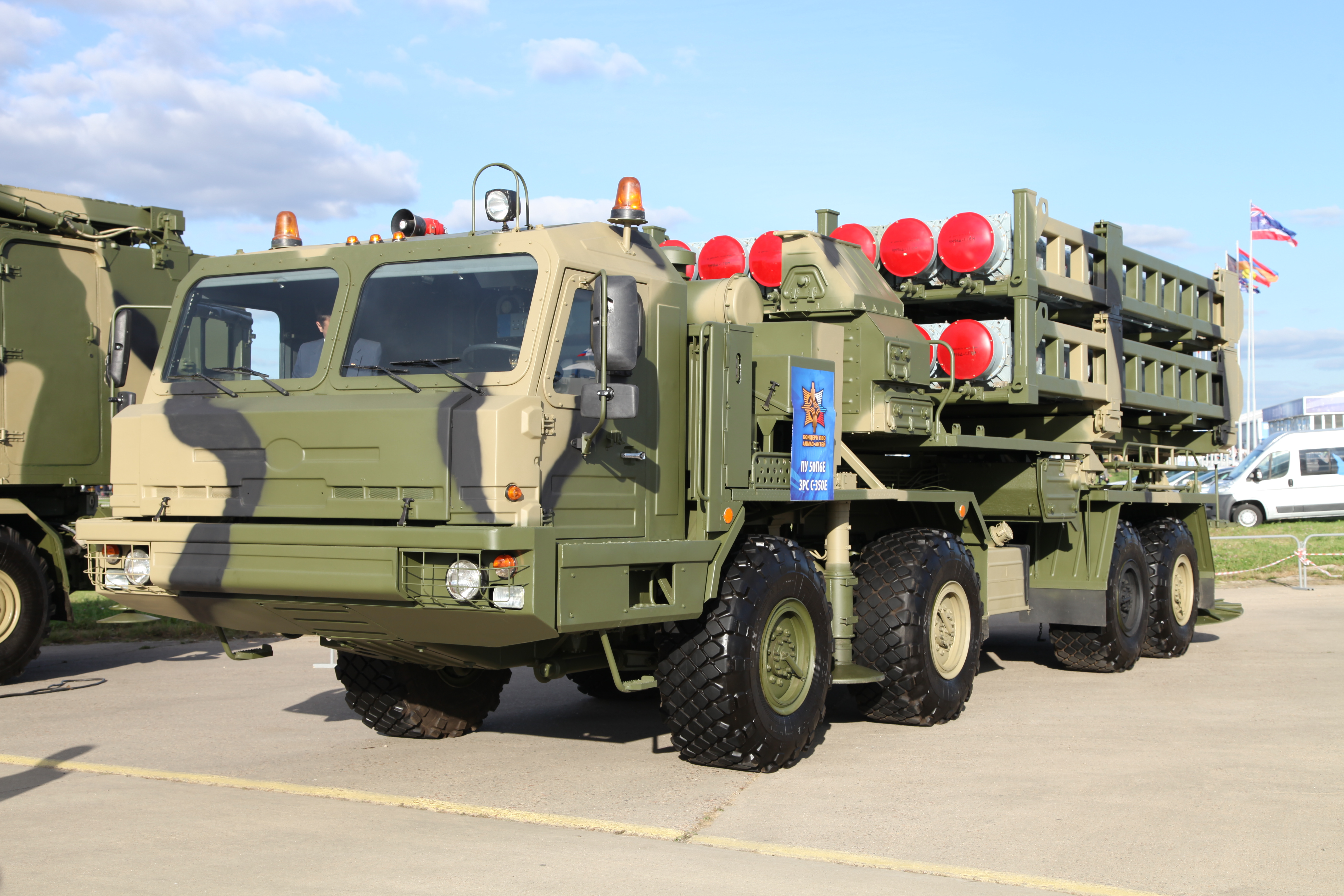 S-350E Vityaz Air defense system